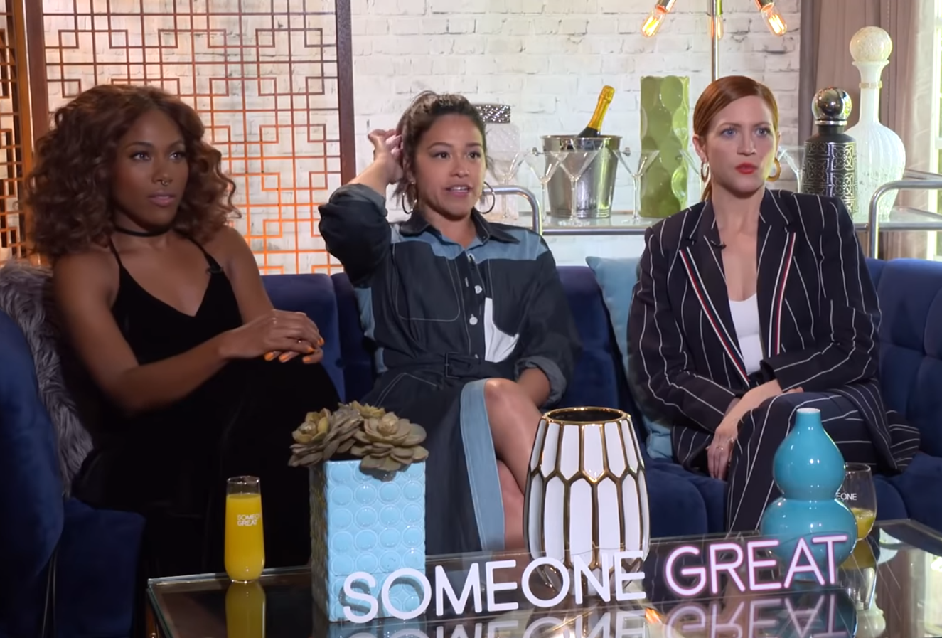 Gina Rodriguez, Brittany Snow and DeWanda Wise play the Real Or Fake cocktail game, tell us their funniest memories and fave things about each other.